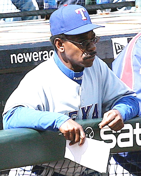 Ron Washington and Art Howe in the dugout.